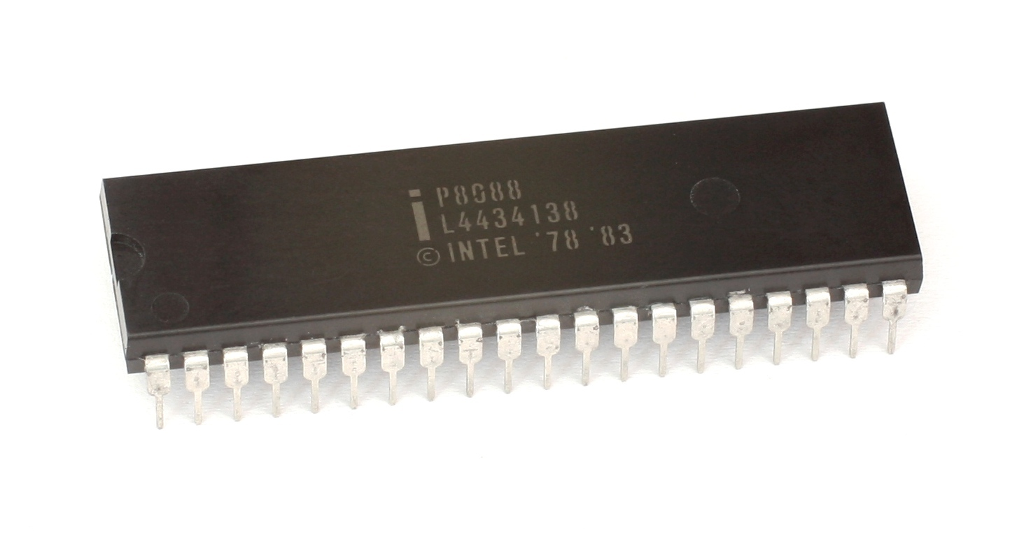 CPU Intel P8088.